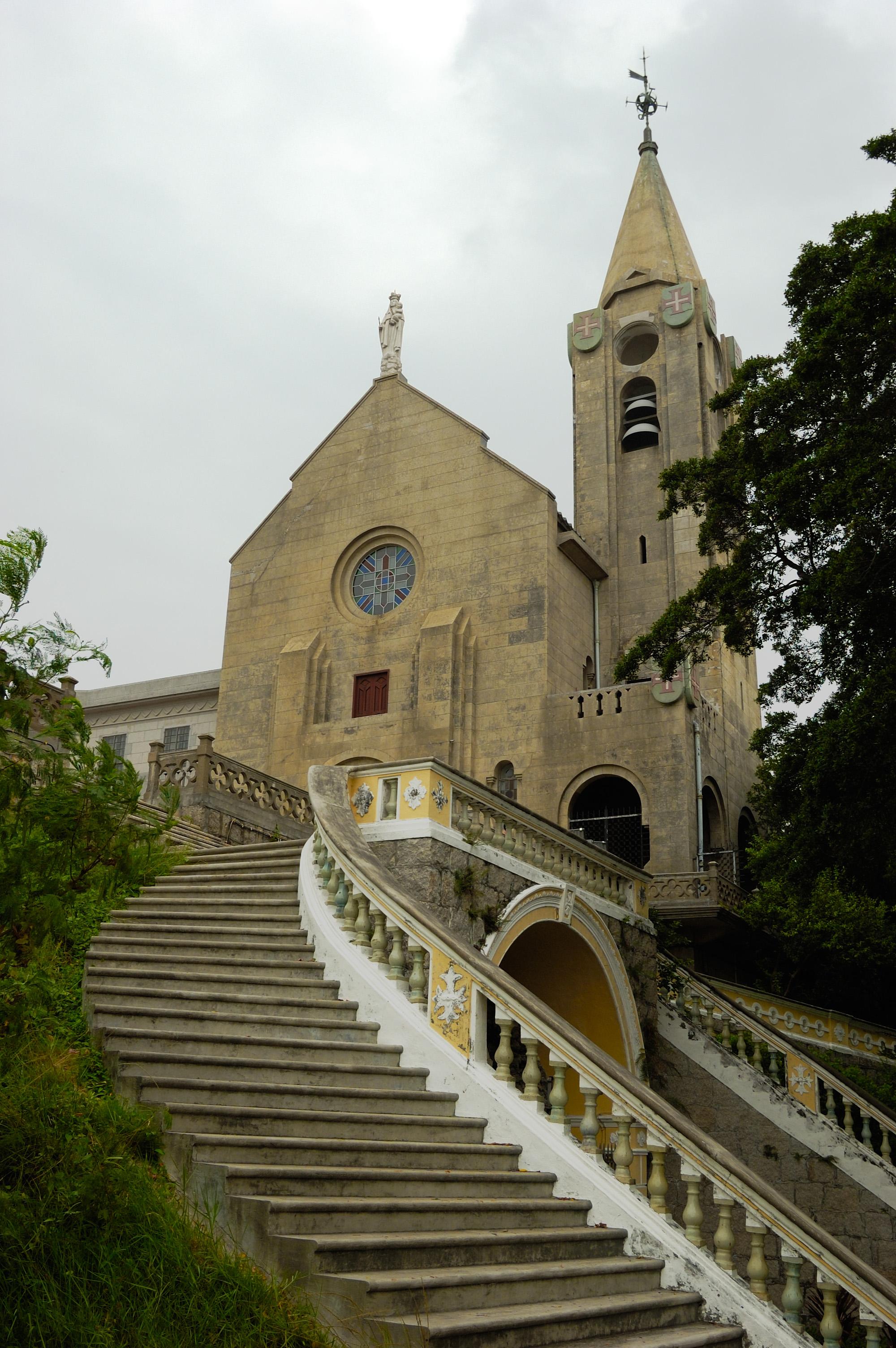 Chapel of Nossa Senhora da Penha, Macau, China.